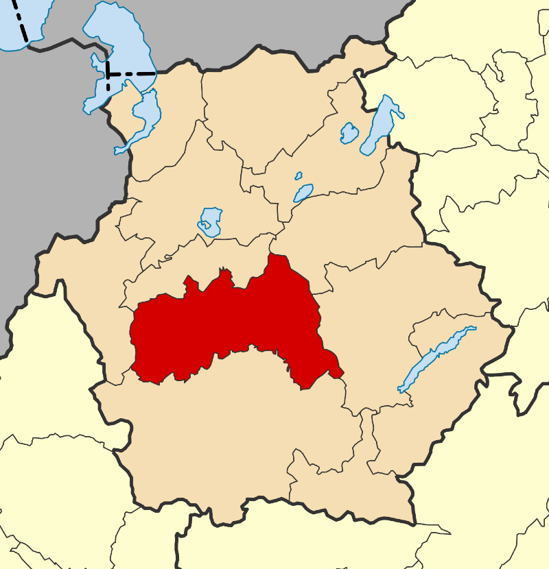 Locator map for Voio municipality in Greek region West Macedonia (2011)